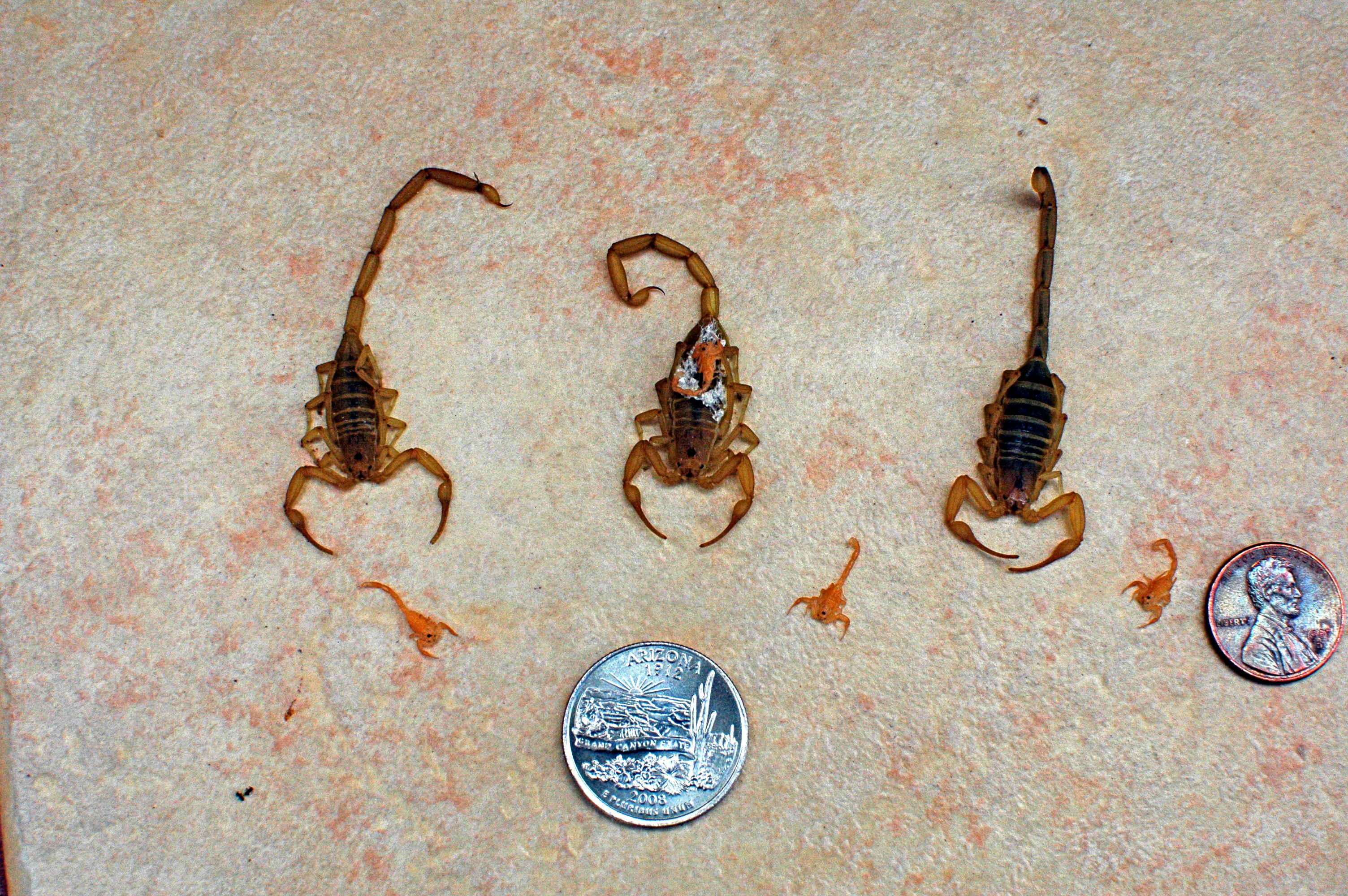 Comparison of three Arizona Bark Scorpions. The adult in the middle is a female, with a baby on her back. She had approximately 16 babies on her back when identified. Note the thicker tail, legs, and pincers of the mother.